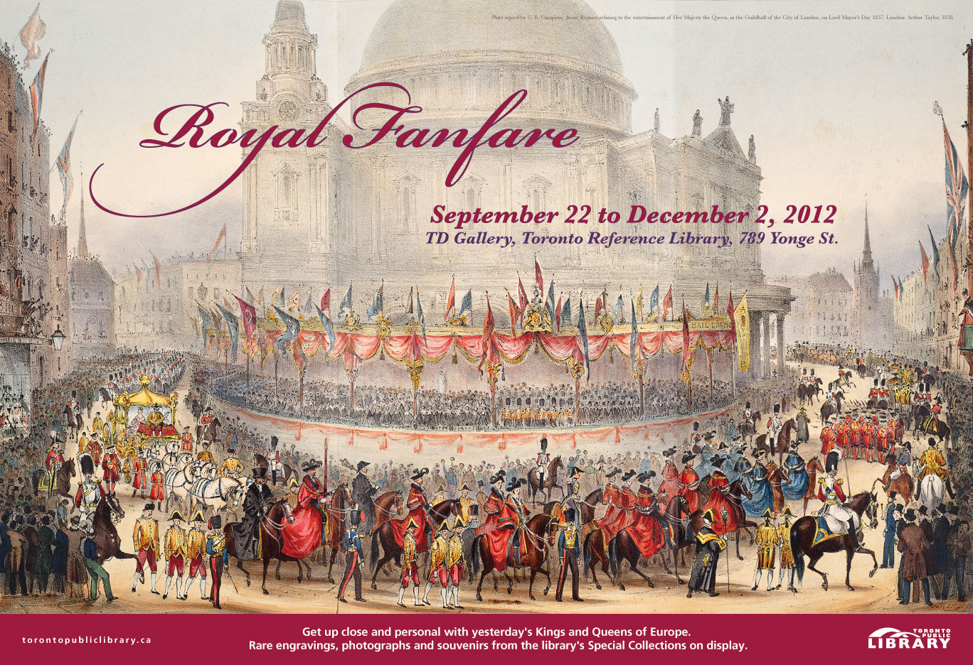 Come visit our newest show in the More information: TD Gallery (Toronto Reference Library, 789 Yonge St.). [Uploader's note, uses this public domain image as a background, . Further additions made by the Toronto Public Library, enough to generate a new copyright on the poster. Shared with the CC license below.] This image is available from the Toronto Public Library This tag does not indicate the copyright status of the attached work. A normal copyright tag is still required. See Commons:Licensing for more information. English | français | +/−